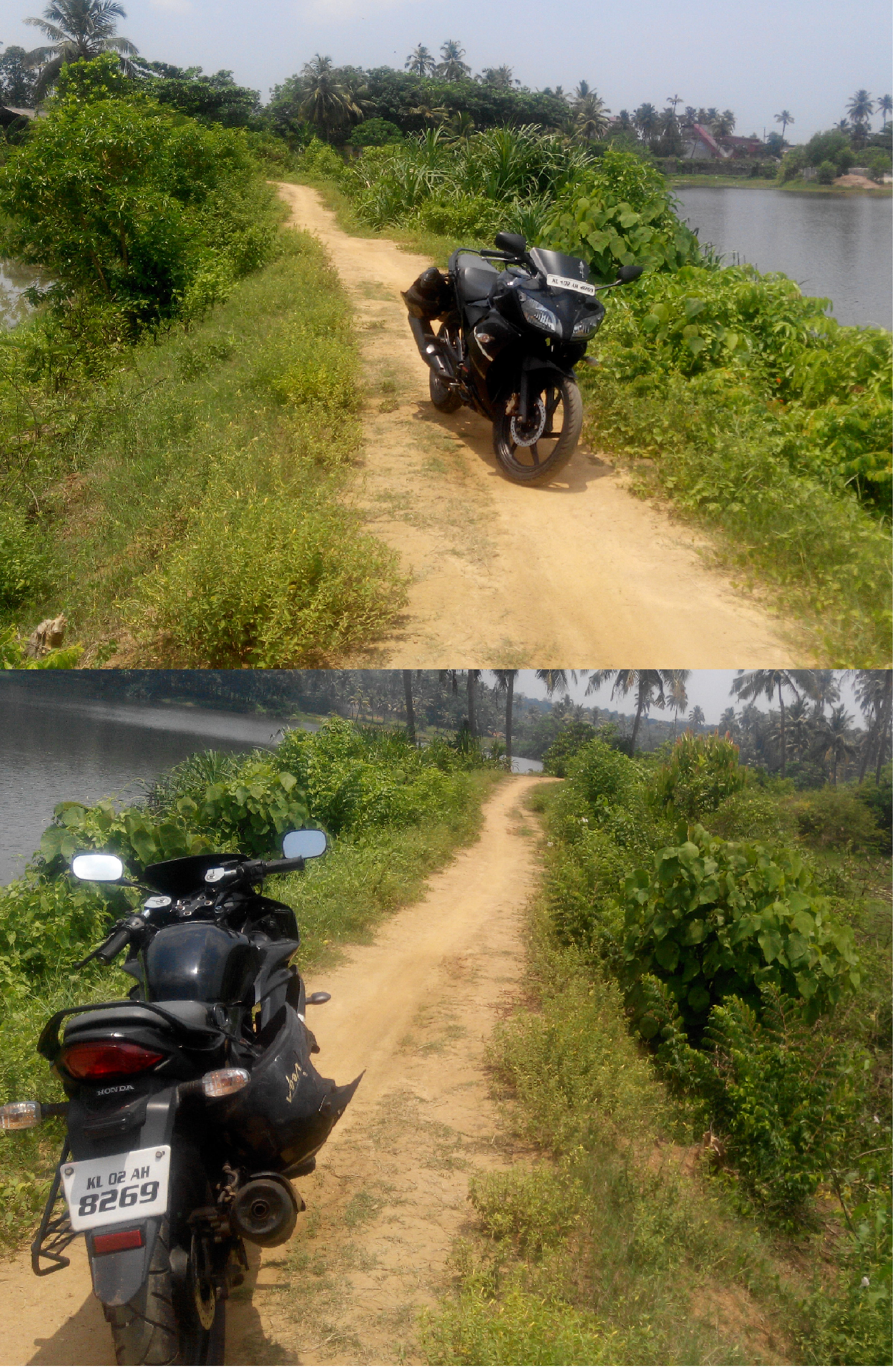 modified dazzler 150